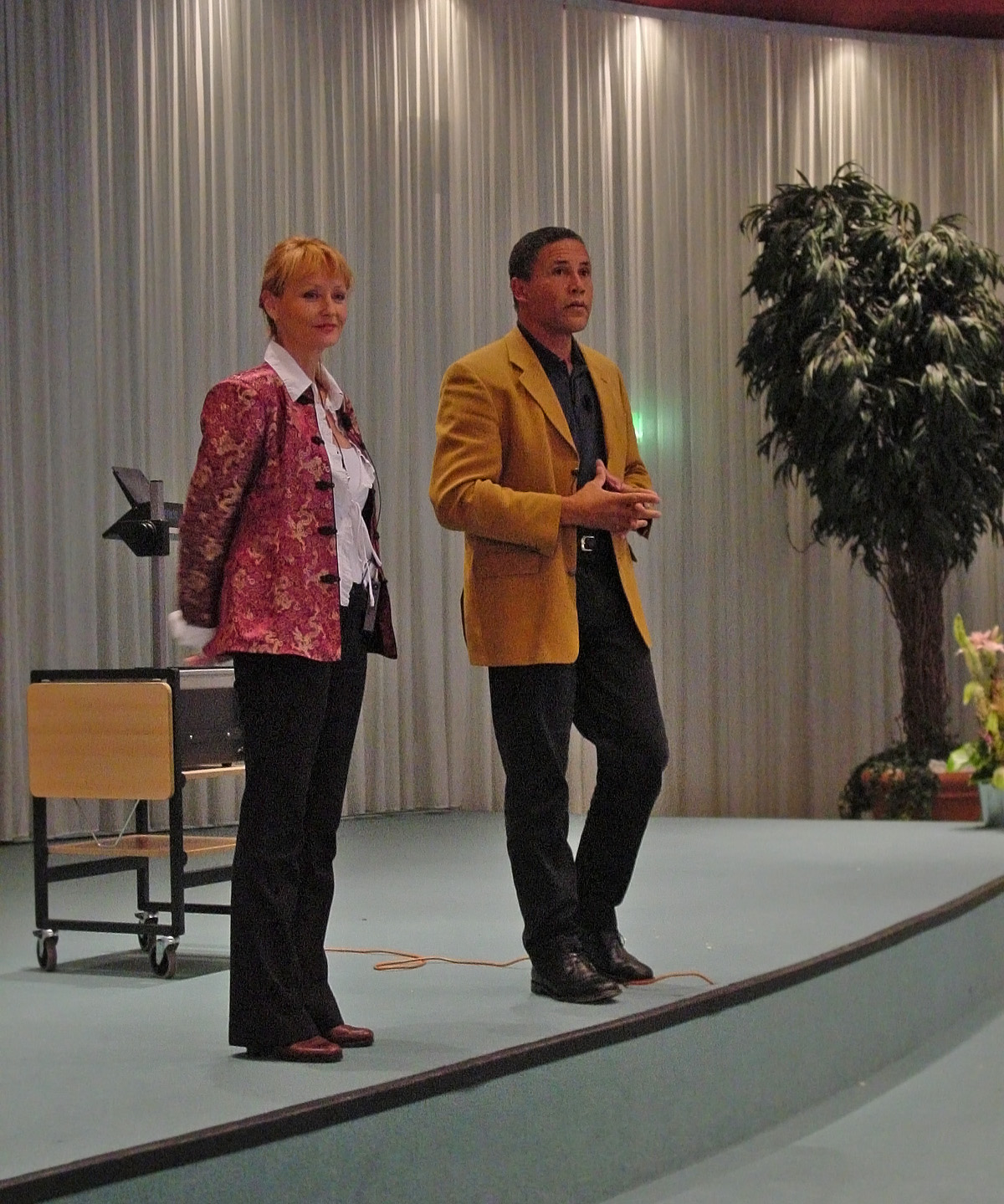 Jasmuheen and Roy Martina in the Netherlands 2001